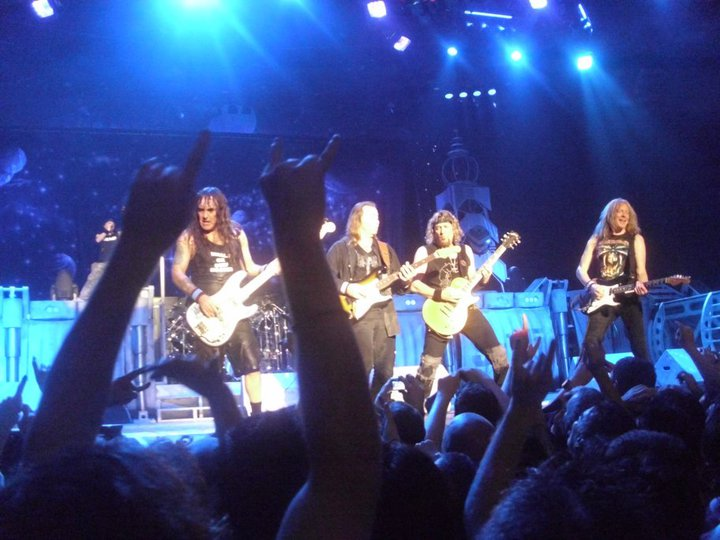 Iron Maiden on stage in Dublin, 2010